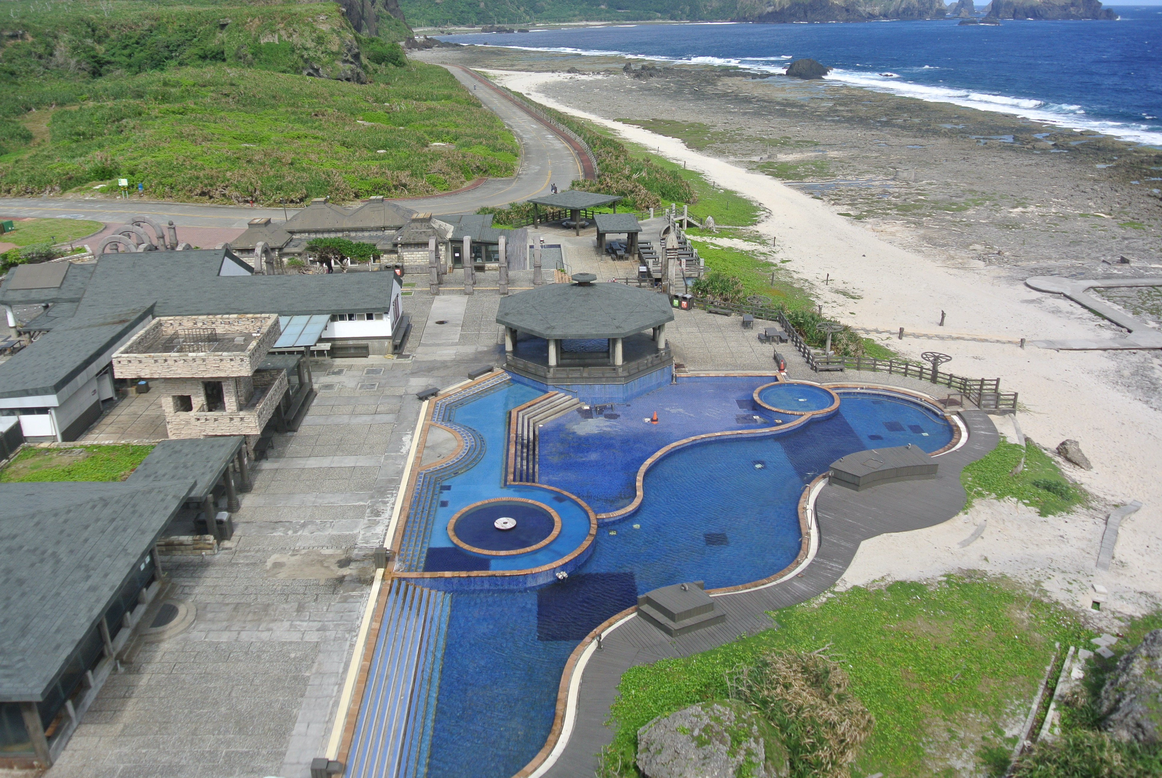 Zhaori Hot Springs